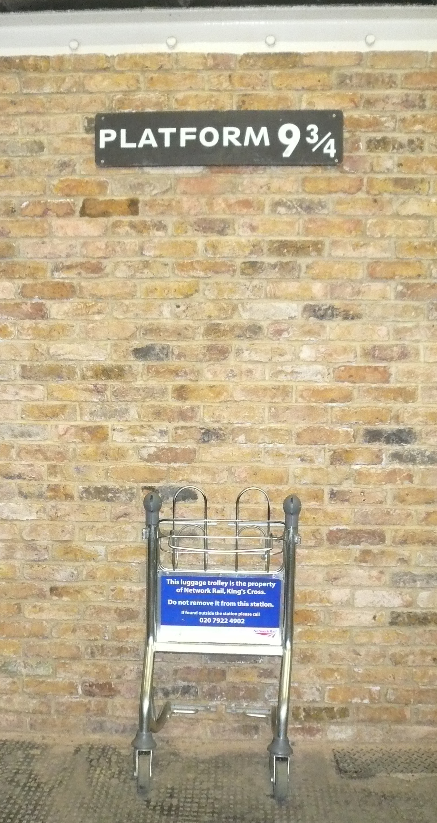 Platform 9 3⁄4 at King's Cross Railway Station, London.